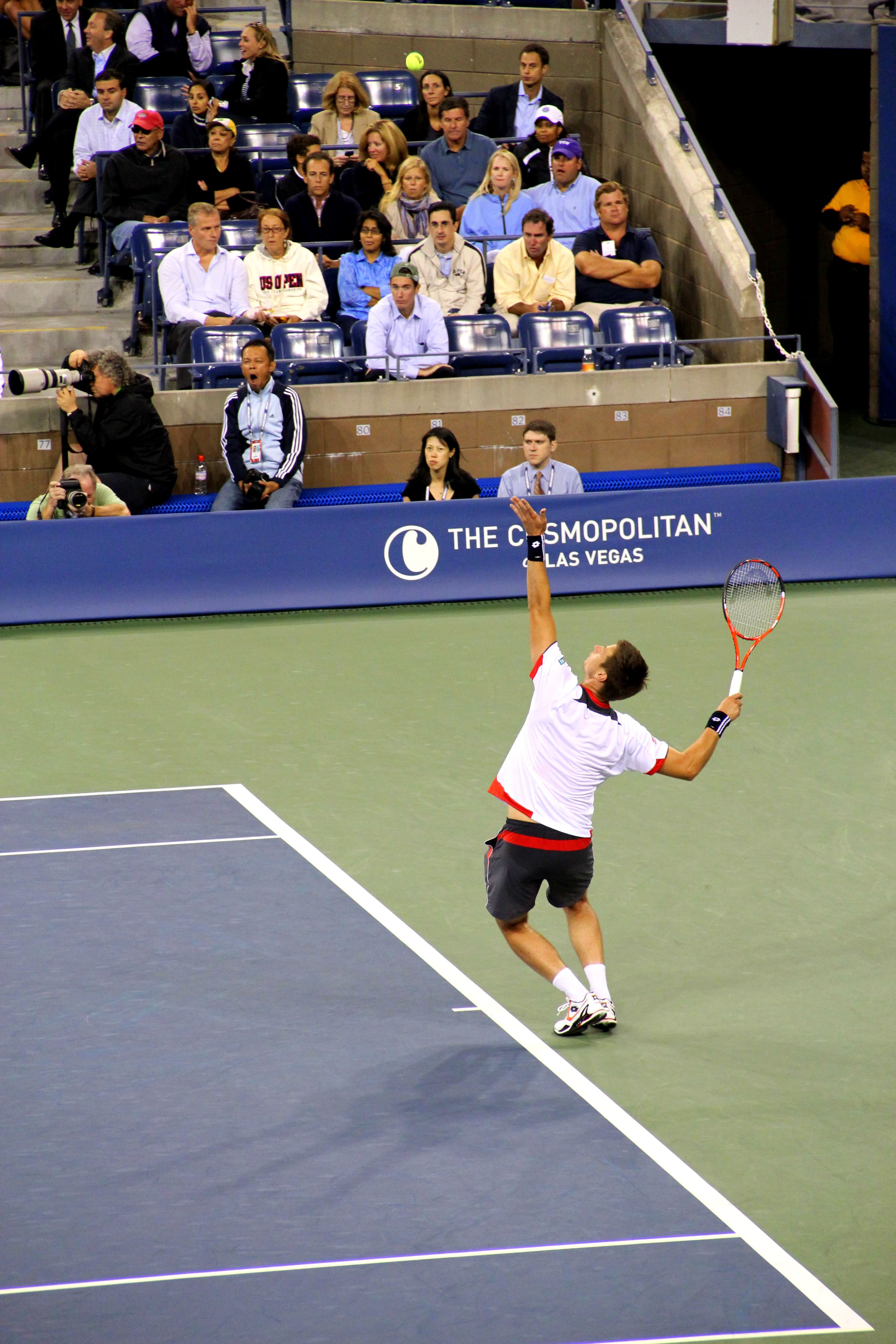 Robin Soderling on Wednesday night at the US Open where he lost against Roger Federer. The Cosmopolitan is in New York for the 2010 US Open, inviting attendees and guests to experience signature views from our Overlook and in our custom designed suite with prime-stadium seating. For more information on The Cosmopolitan visit